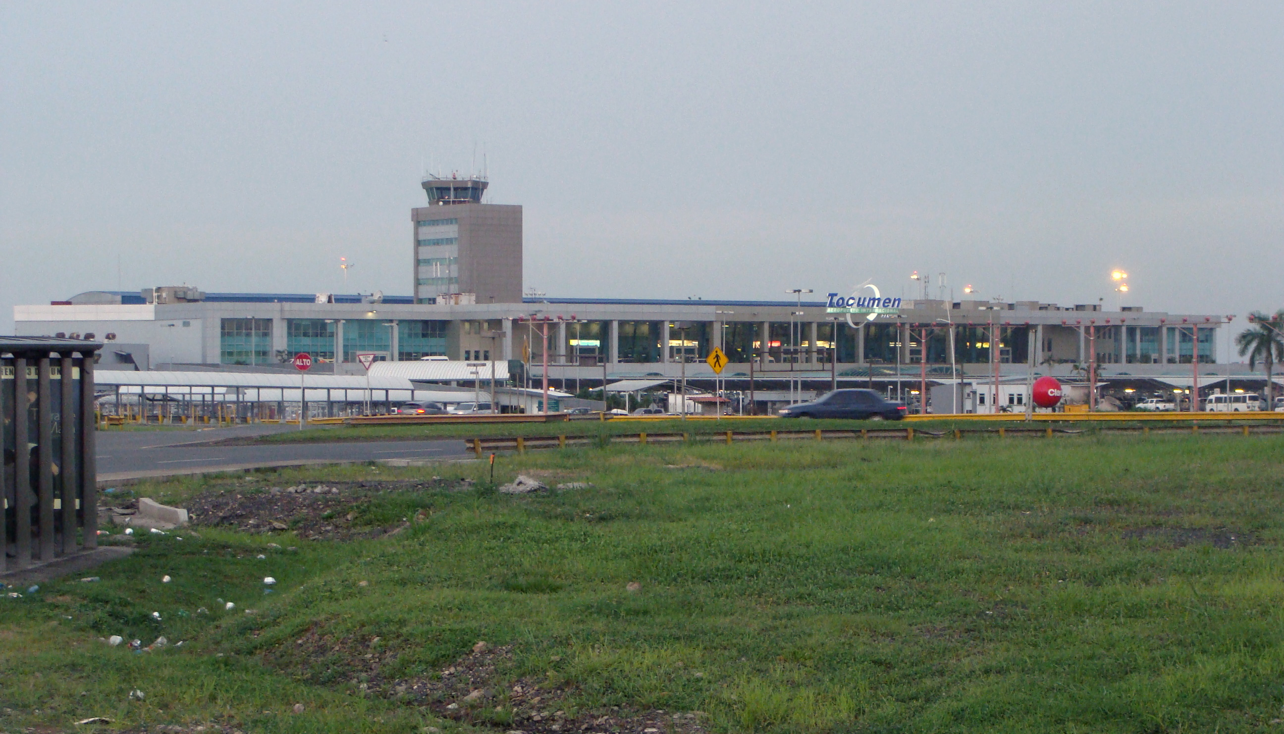 The Main Terminal of Tocumen International Airport